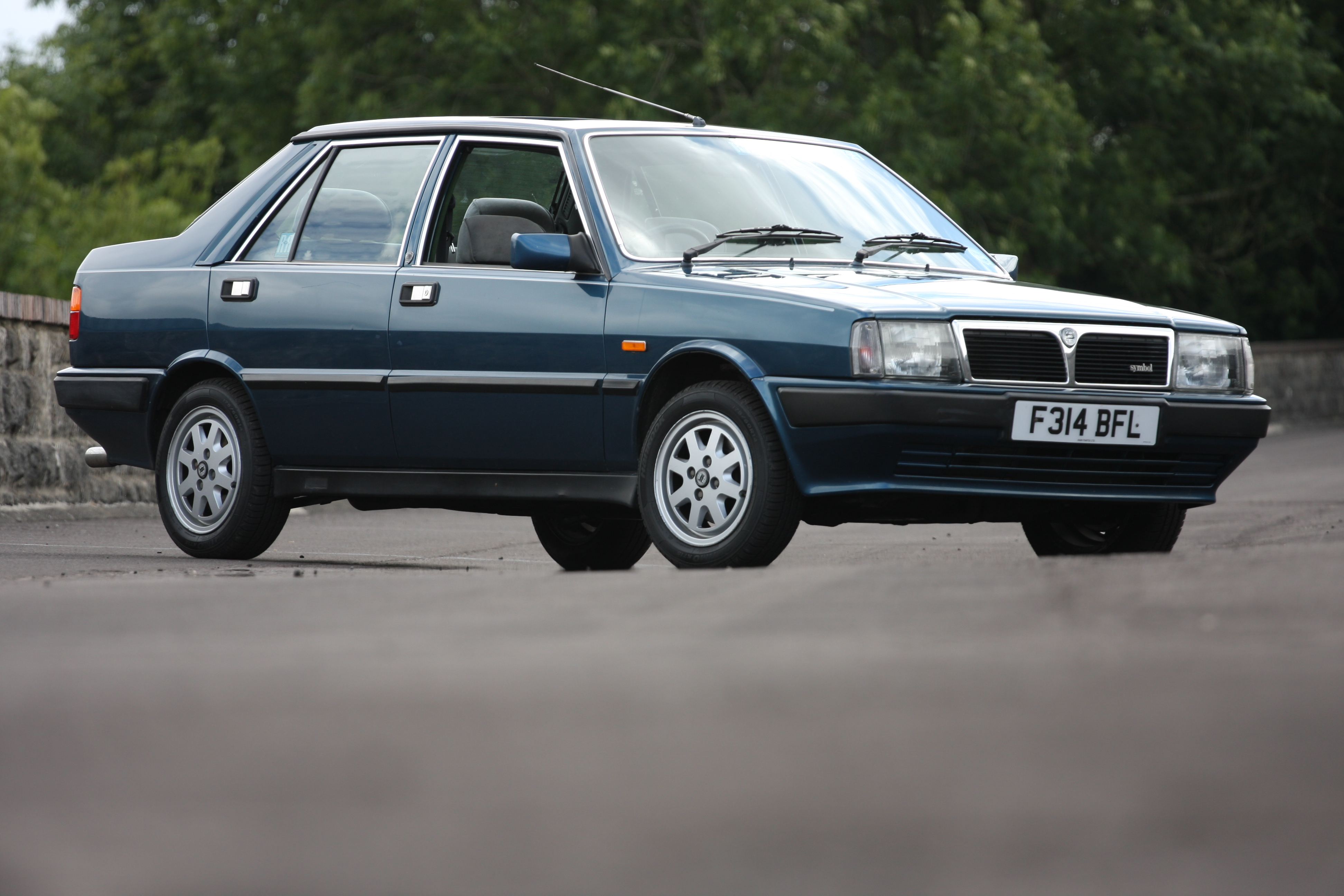 1989 Lancia Prisma 1.6 Symbol at the Lancia Beta Meeta 2010, Kilver Court UK